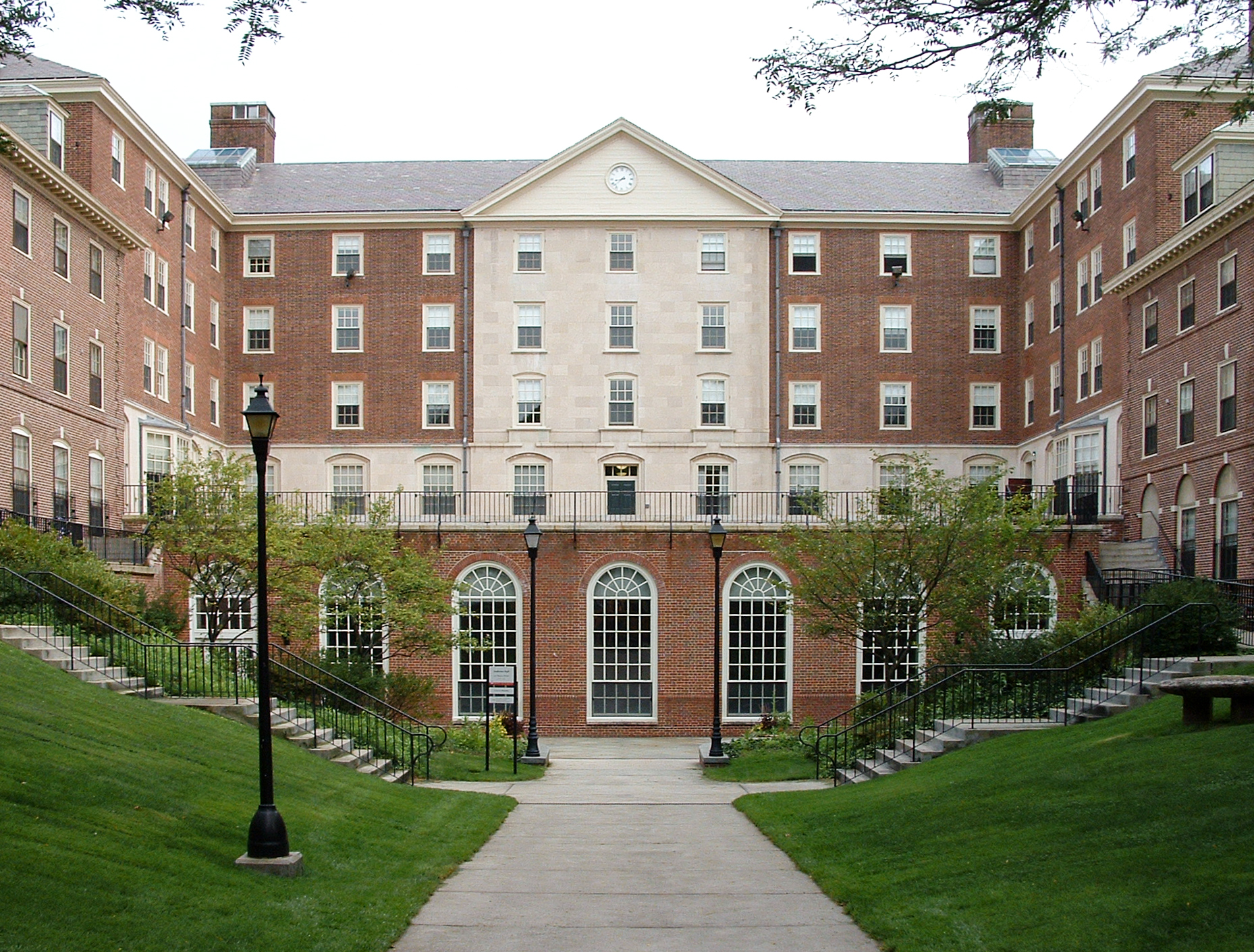 Brown University - Andrews Hall